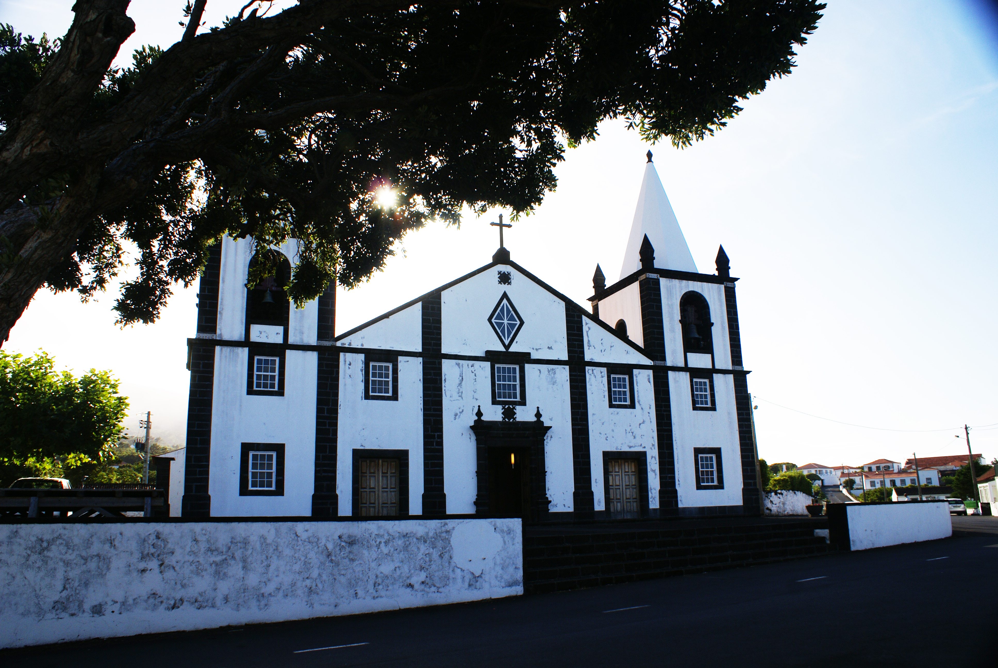 Front façade of the Church of São Roque, São Roque, Pico (Azores), Portugal